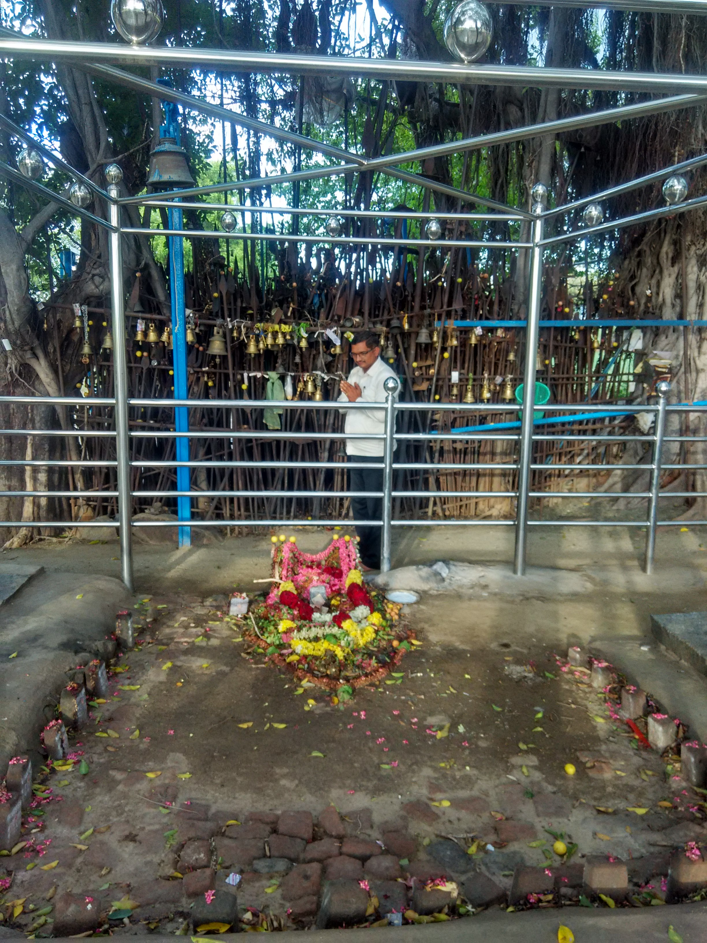 TEMPLE